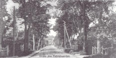 postcard about 1900, Poststraße, Fedderwarden, Friesland, Germany